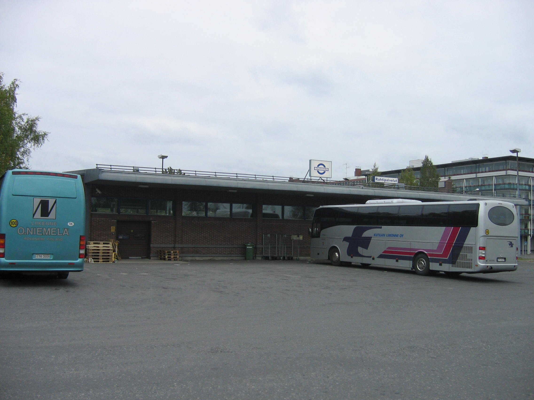 The "Matkahuolto" goods delivery terminal in the city of Oulu, Finland.